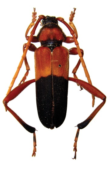 Embrikstrandia vivesi Bentanachs, 2005 male, from Yunnan, pronotum mostly red.